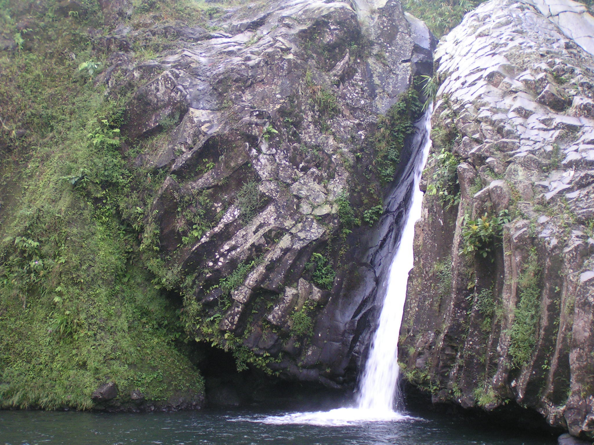 A waterfall at the national park in Baturaden, Indonesia